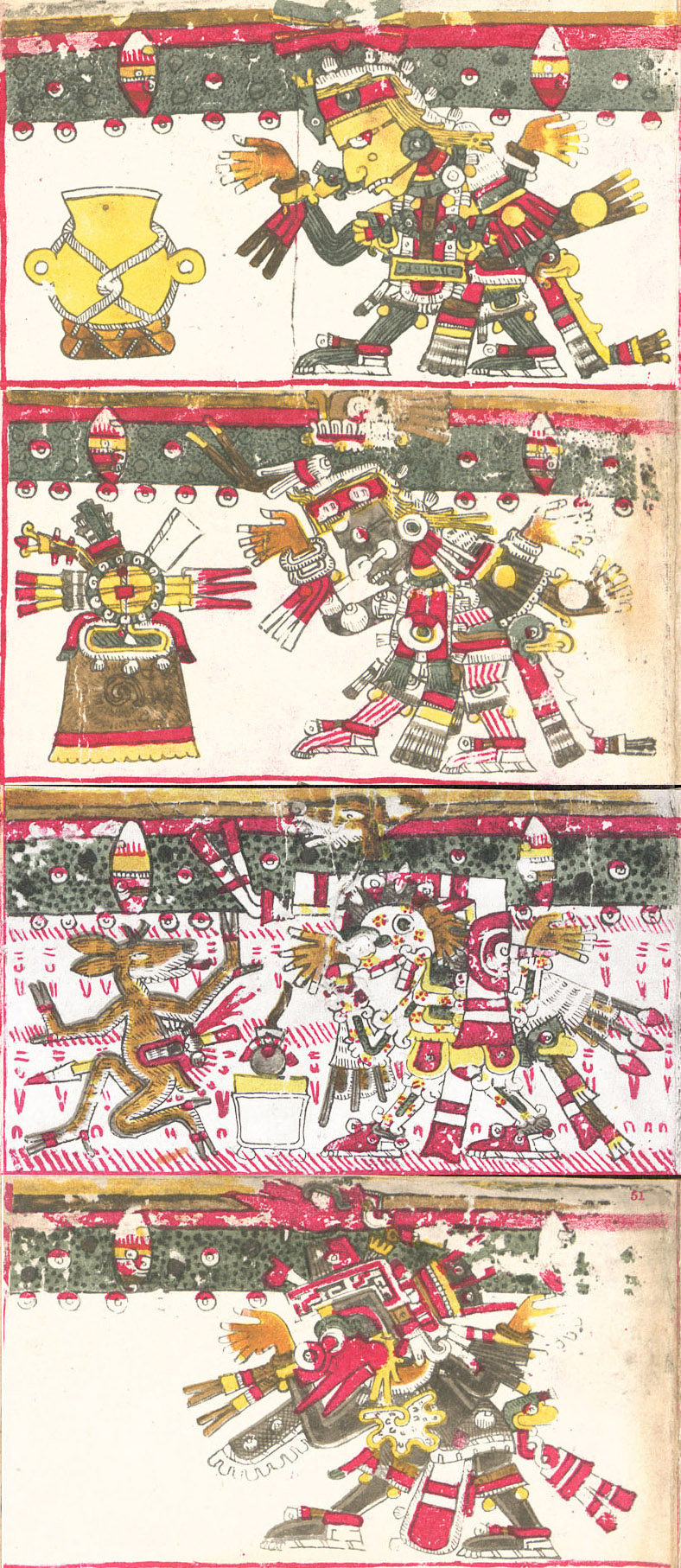 4 Kingdoms in the world described in the Codex Borgia 1.- Cihuatlampa (West) 2.- Mictlampa (North) 3.- Huitztlampa (South) 4.- Tlauhcampa (East)